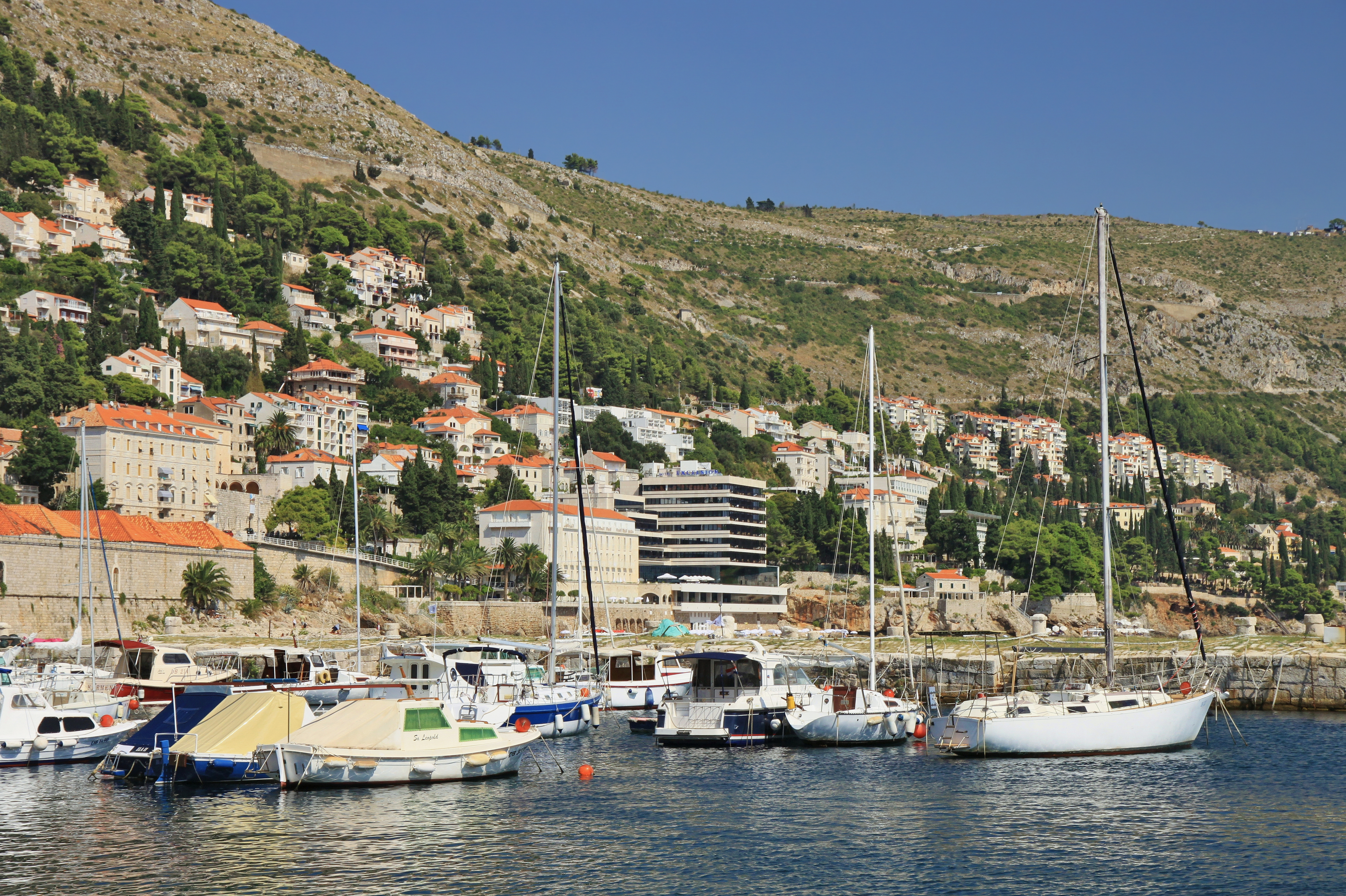 The view from the old port on the coast. Dubrovnik, Dubrovnik-Neretva County, Croatia.